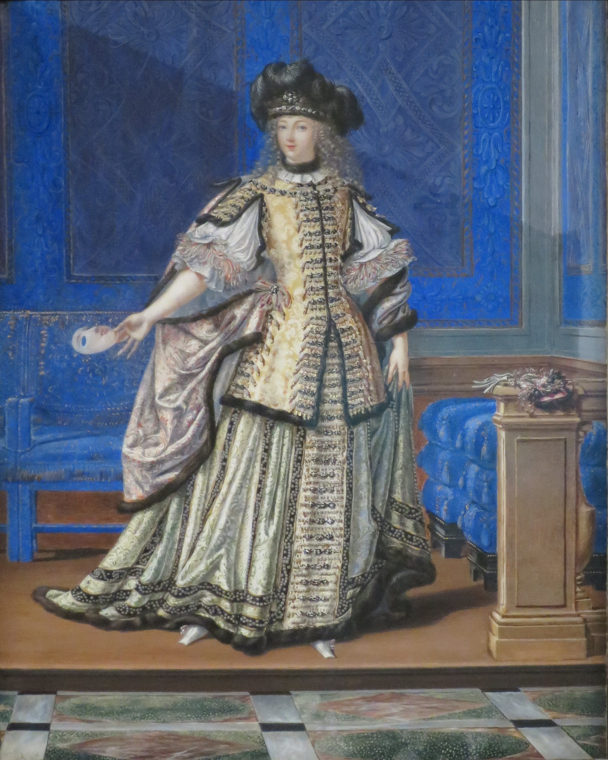 Mademoiselle de La Vallière in Costume